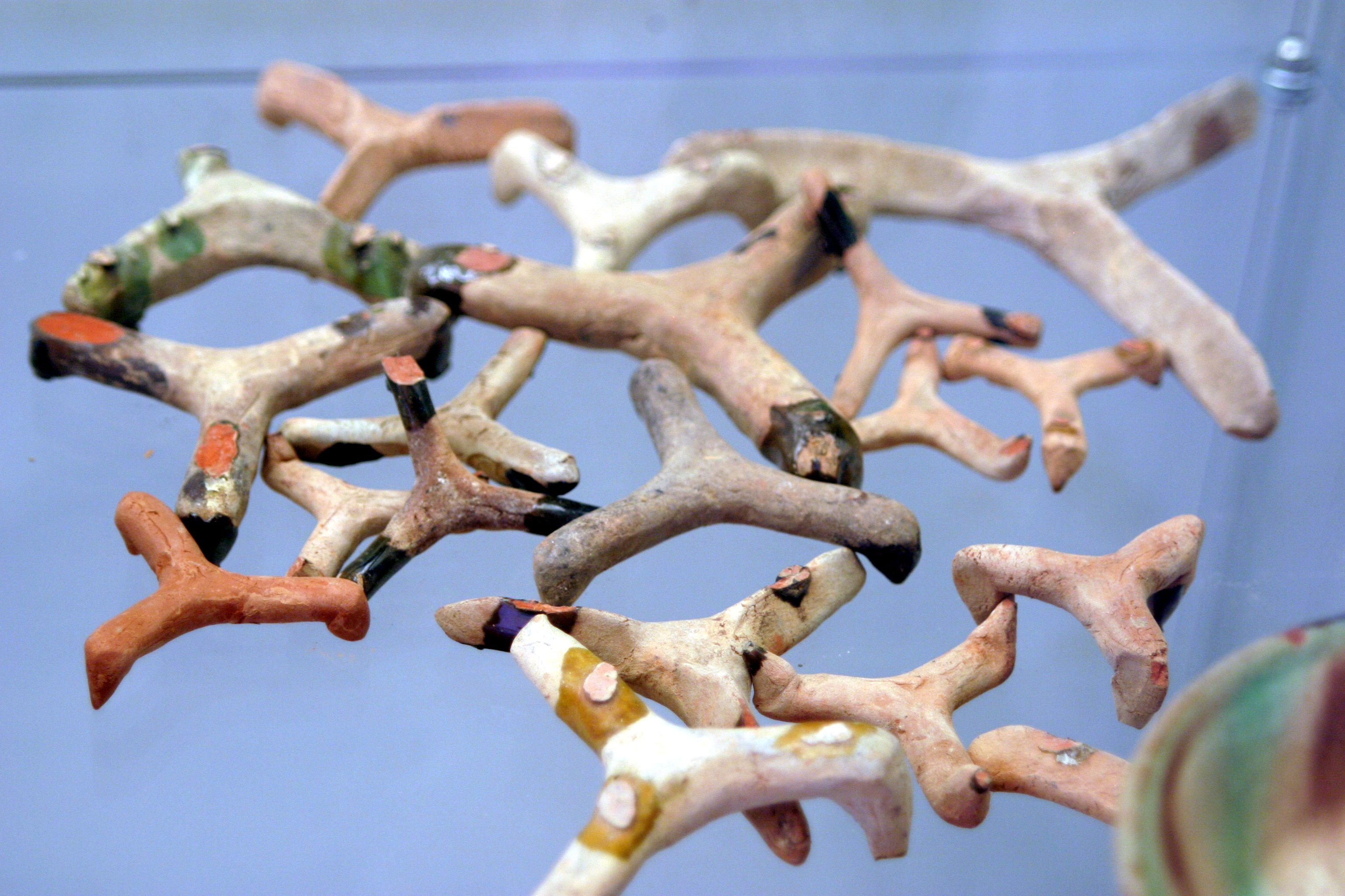 Alcazaba of Malaga, Spain